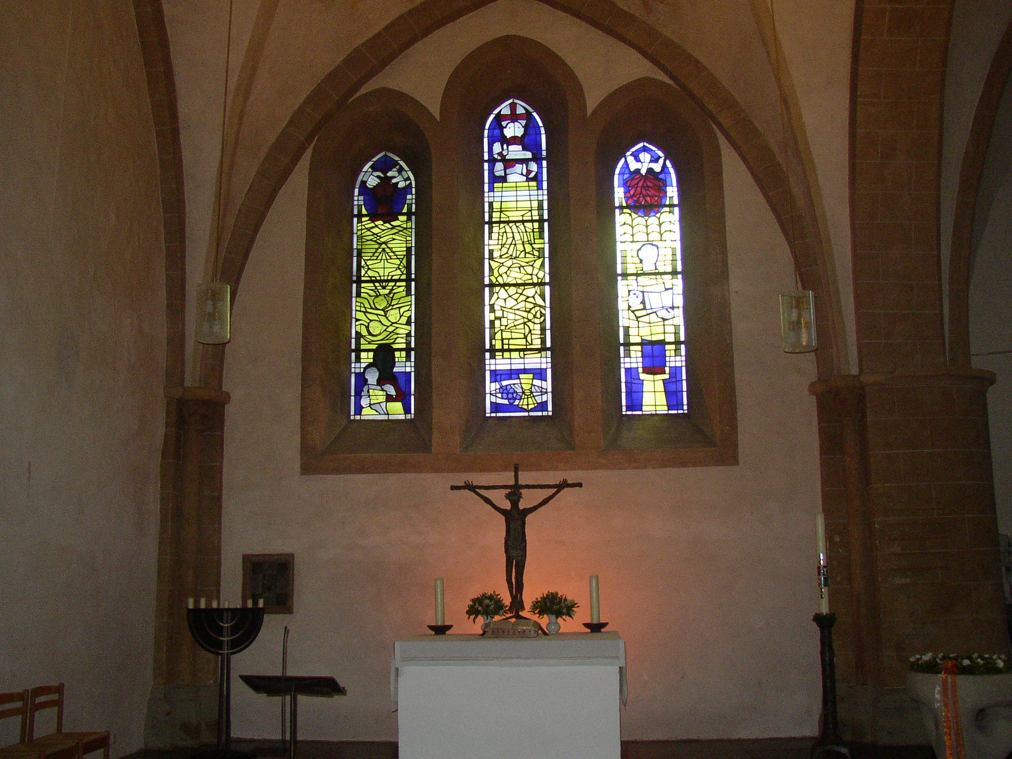 altar of St. Johannes church in Halle (Westfalen), county of Guetersloh, Germany